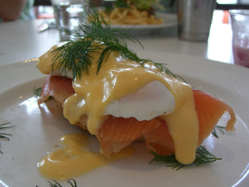 Smoked salmon eggs Benedict as served by Cafe Bliss at 1393 Toorak Road in Camberwell, Victoria, Australia.